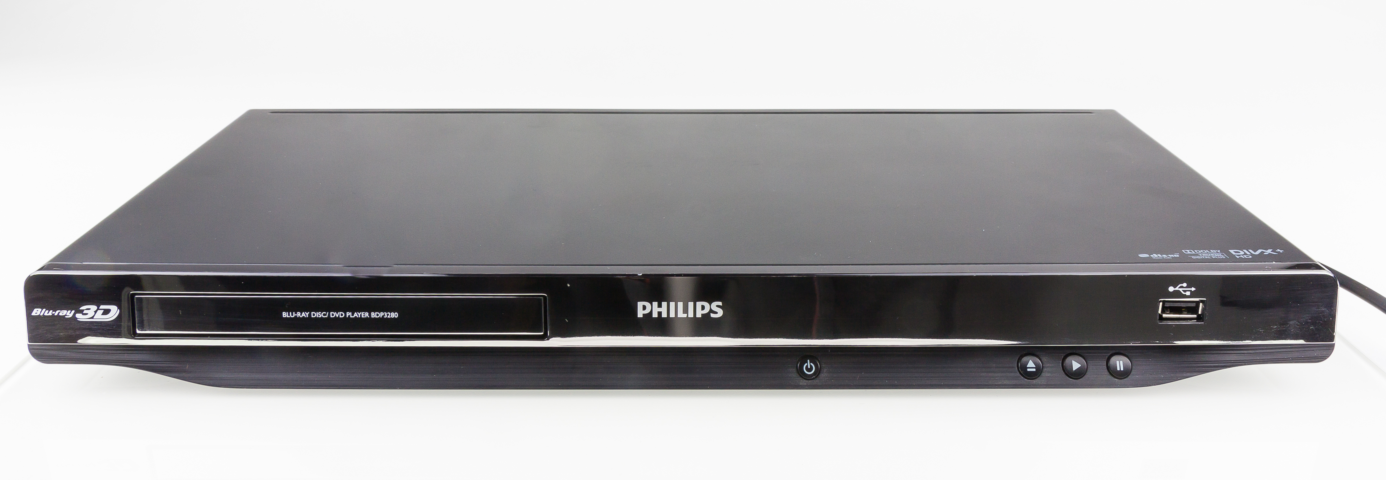 Philips BDP3280/12 - Blu-ray/DVD Player